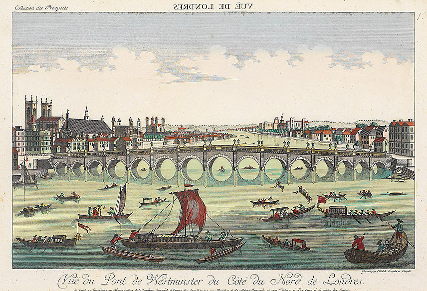 „Vue du Pont de Westminster du Côte du Nord de Londres“ (London, Westminster Bridge); Copperplate print, colorized, printed by B. F. Leizelt, Augsburg, 2nd half of 18th century; 24,5 x 39 cm